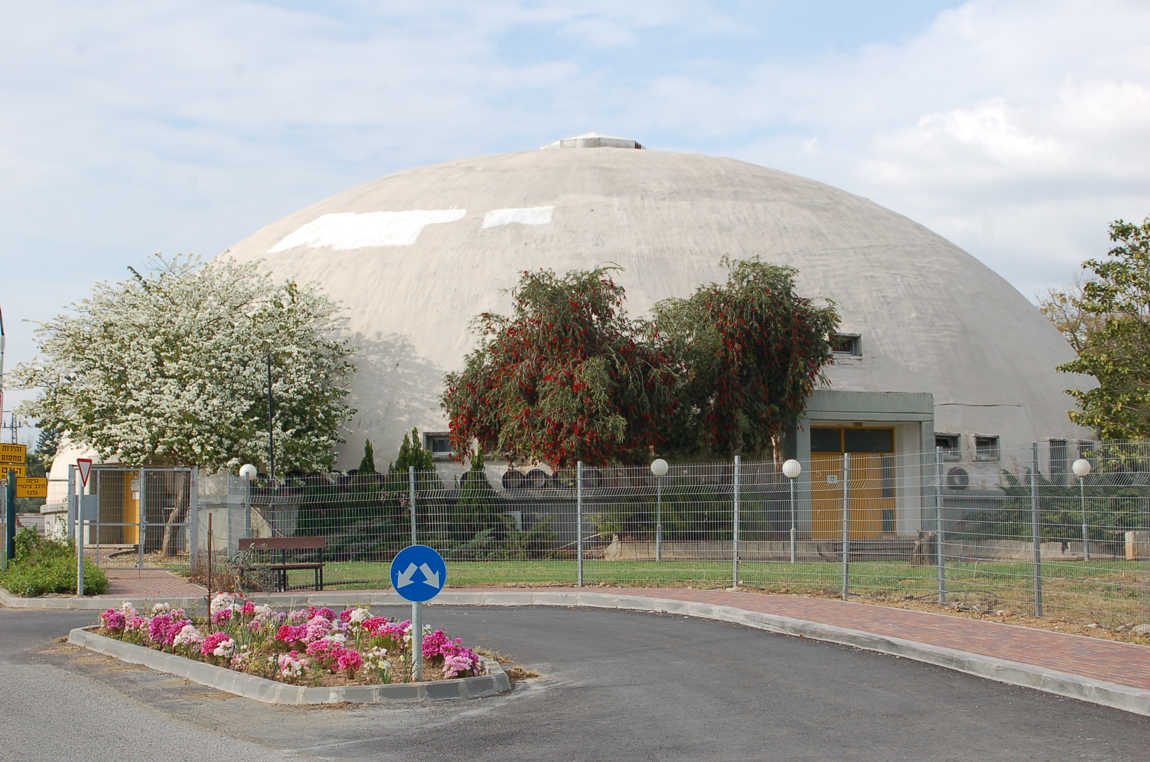 The monolithic dome of gym at the Har Vagai regional high school at Kibbutz Dafna in the Upper Galilee, Israel.